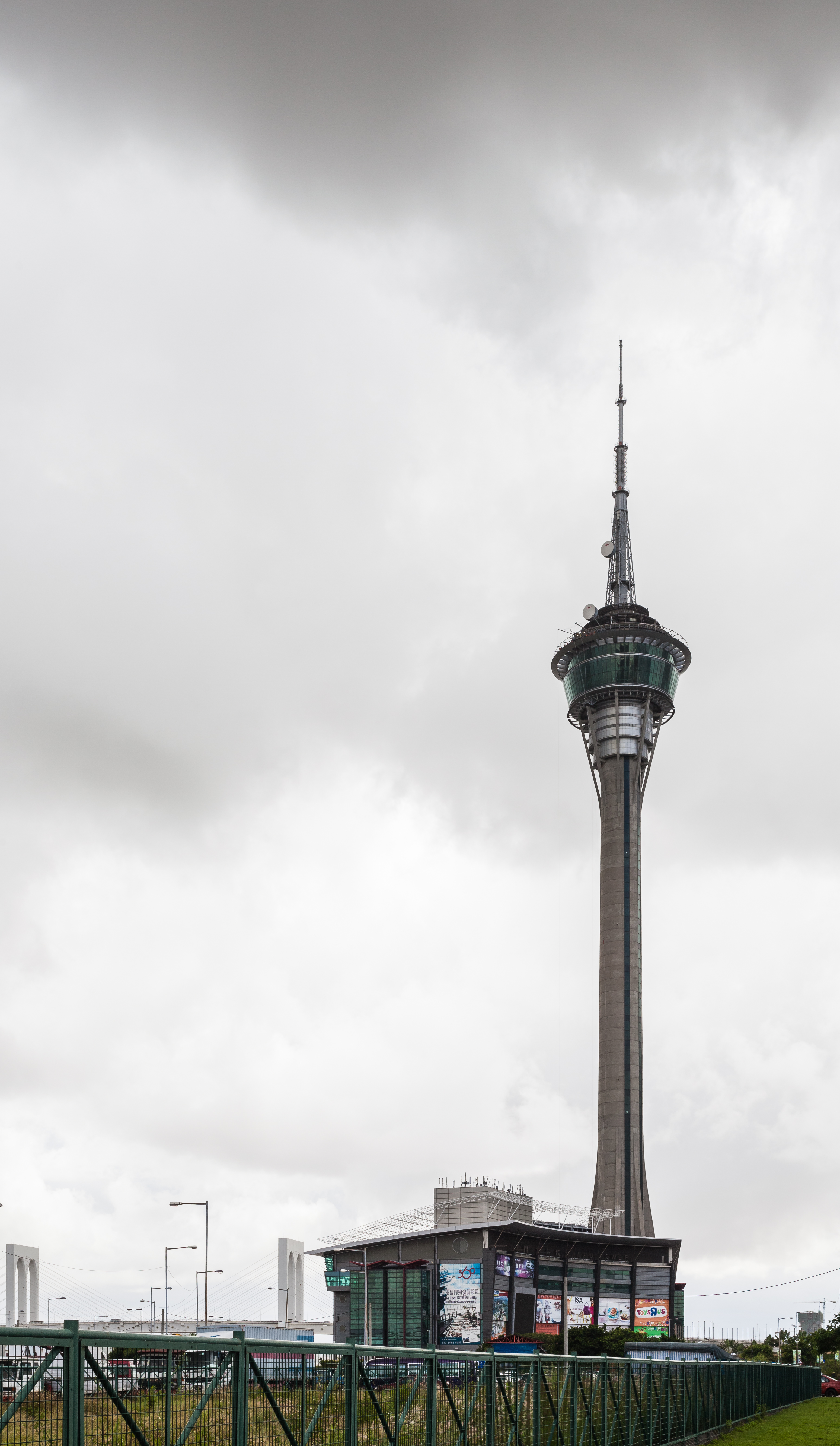 Macau Tower